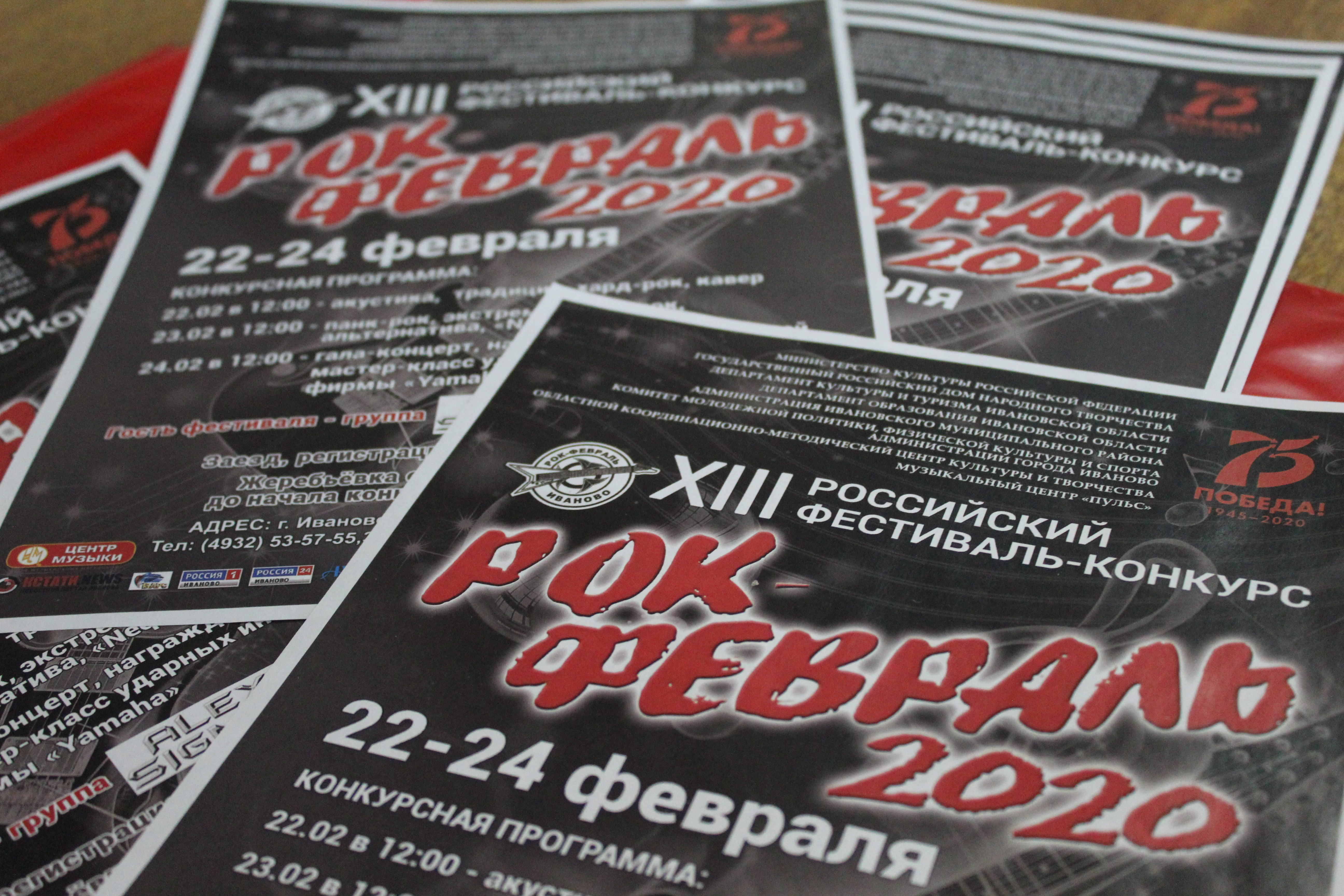 Афиши Рок-Февраль 2020